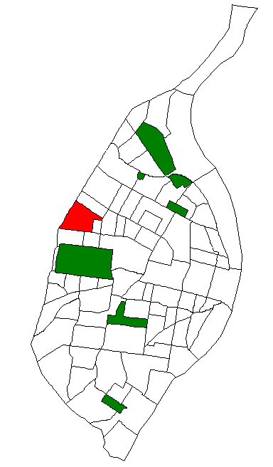 Map of St. Louis neighborhood #48